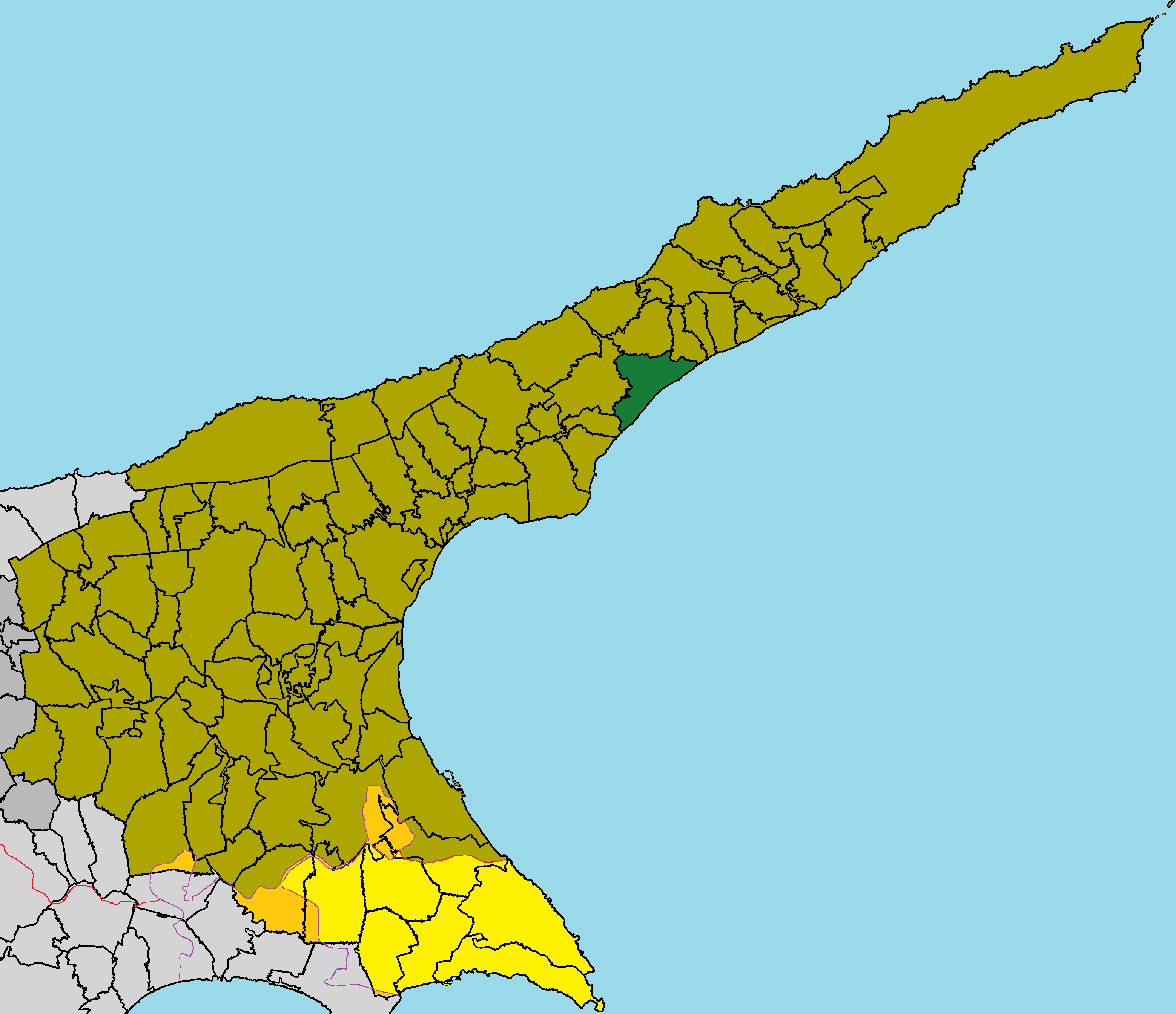 Koma tou Gialou in Famagusta District (de jure).